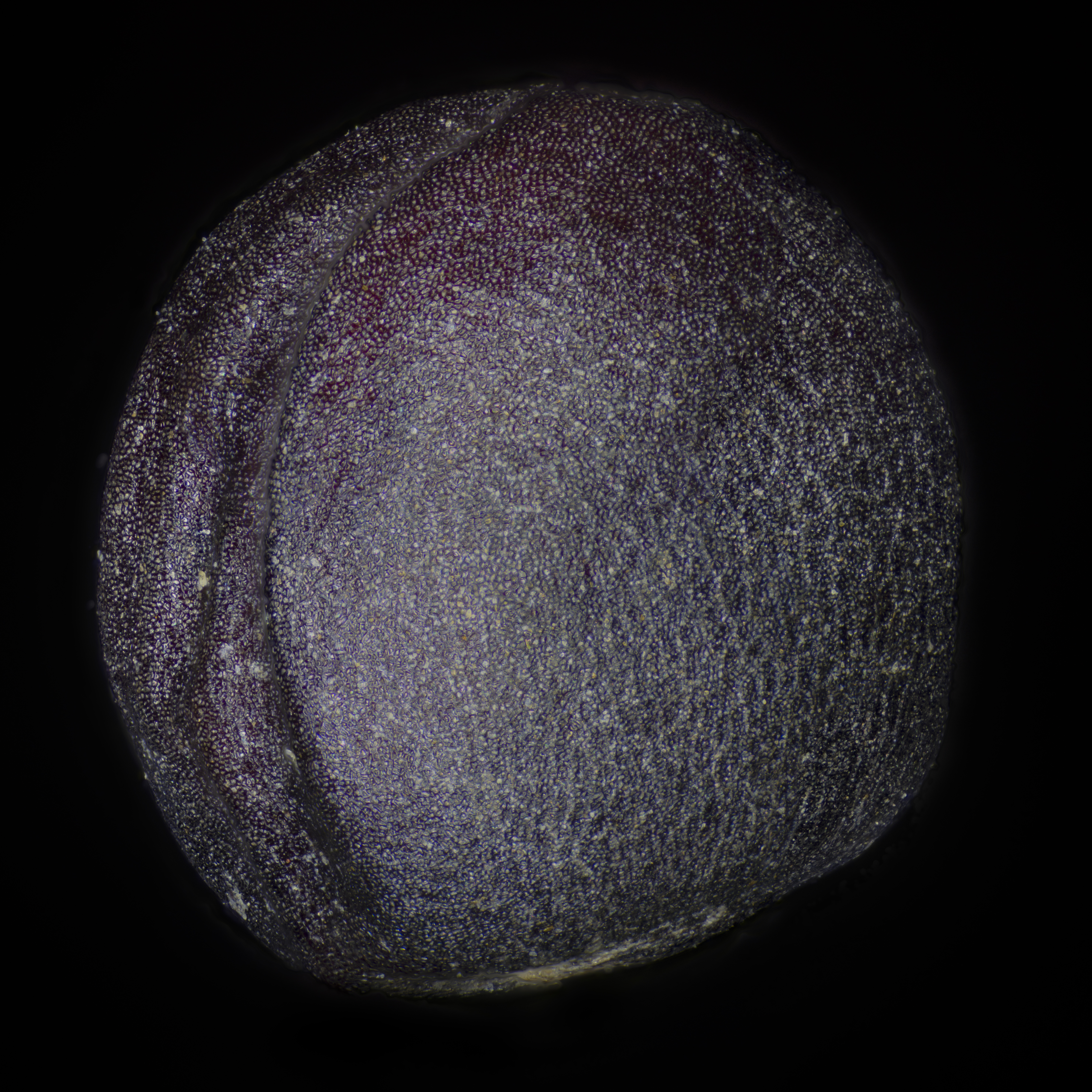 Rapeseed seed under microscope